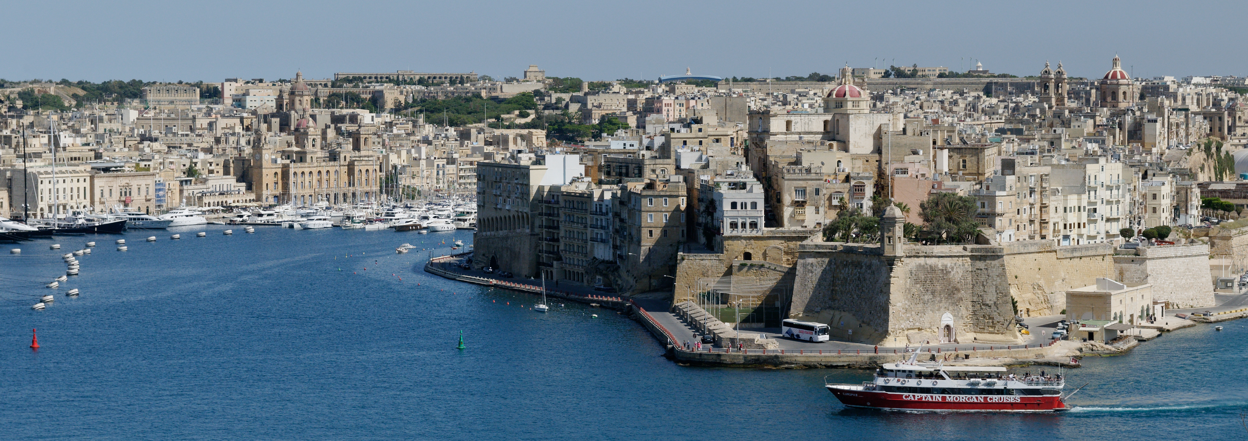 Grand Harbour seen from Triq Girolamo Cassar in Valletta, Malta.